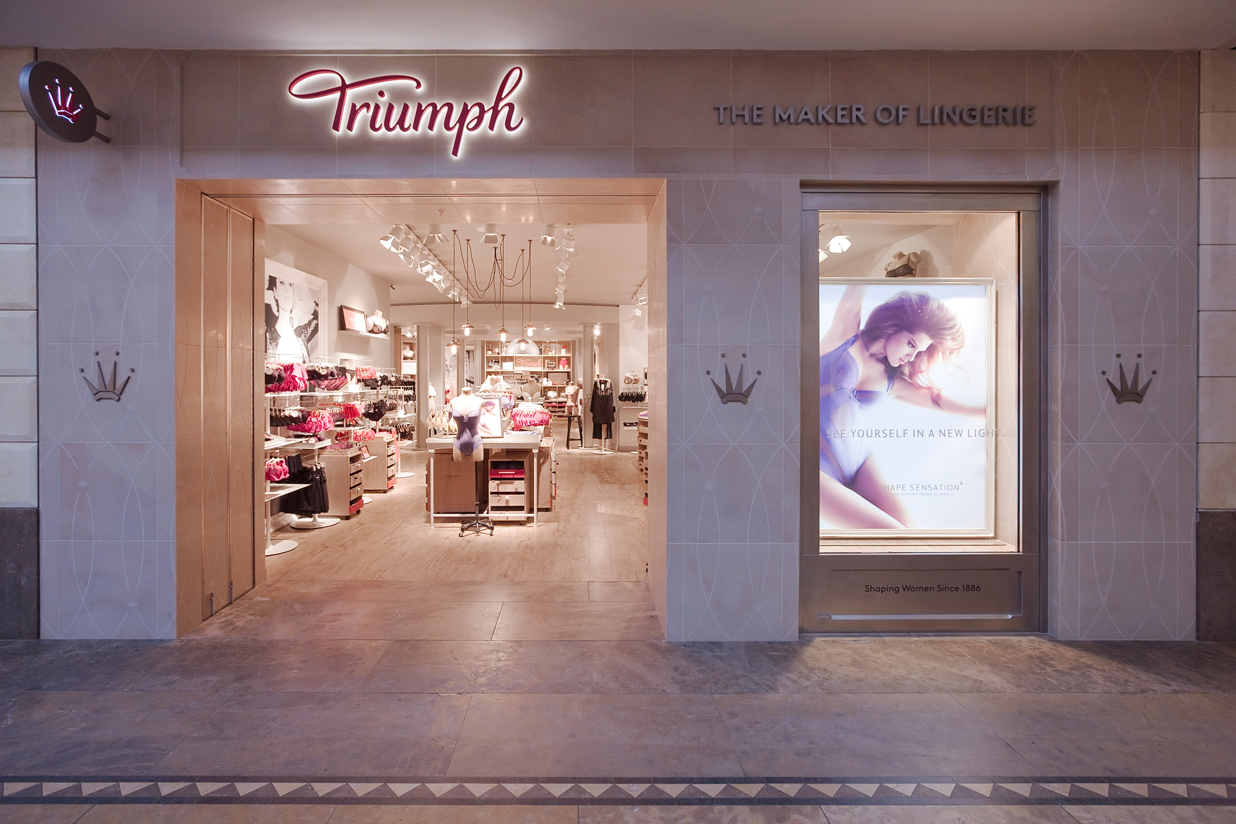 Triumph Store at Bluewater Shopping Centre